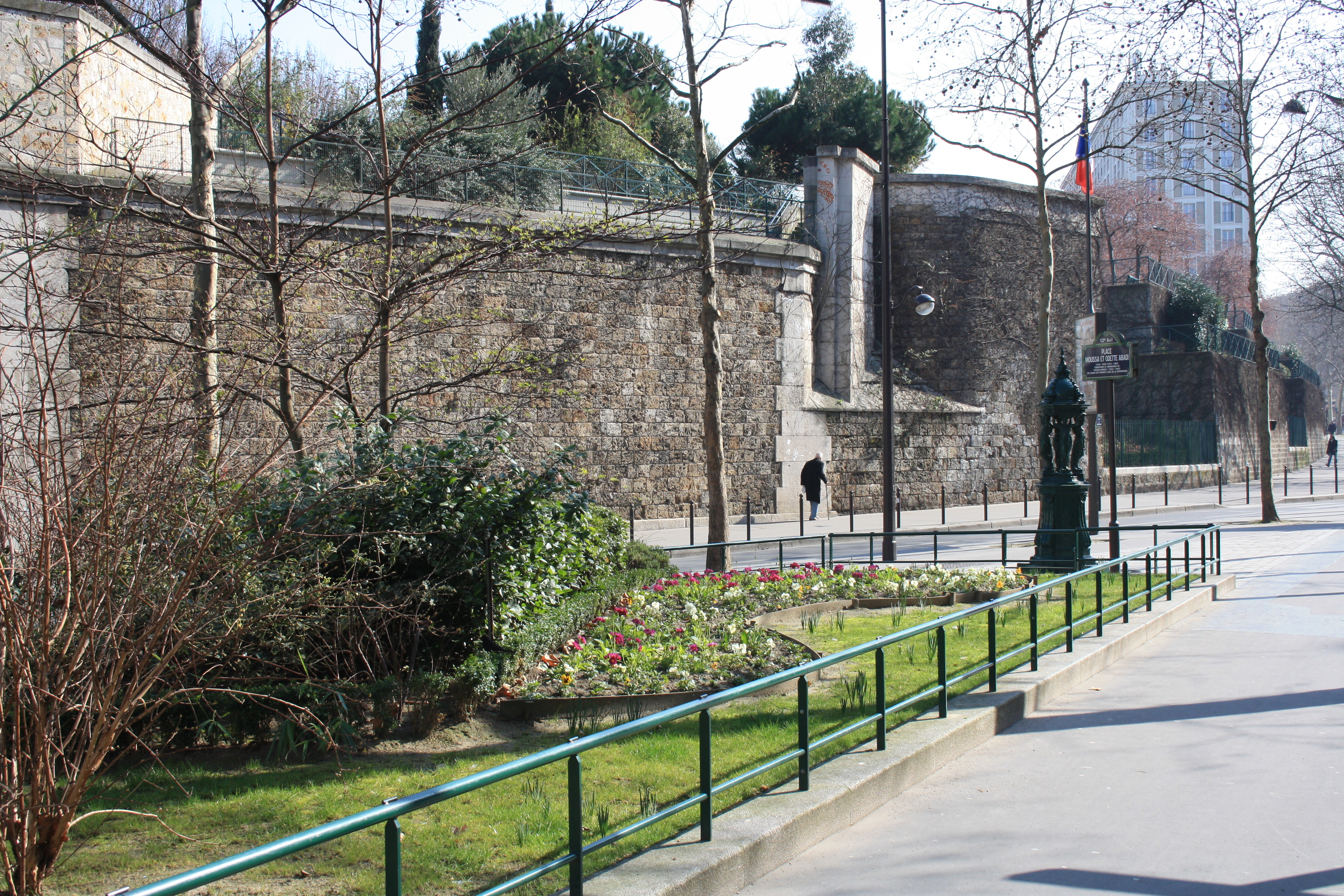 Place Moussa-et-Odette-Abadi on Avenue Daumesnil street in Paris.